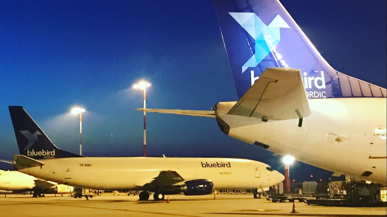 Picture of two Boeing 737 from Bluebird Nordic in Athens Greece.